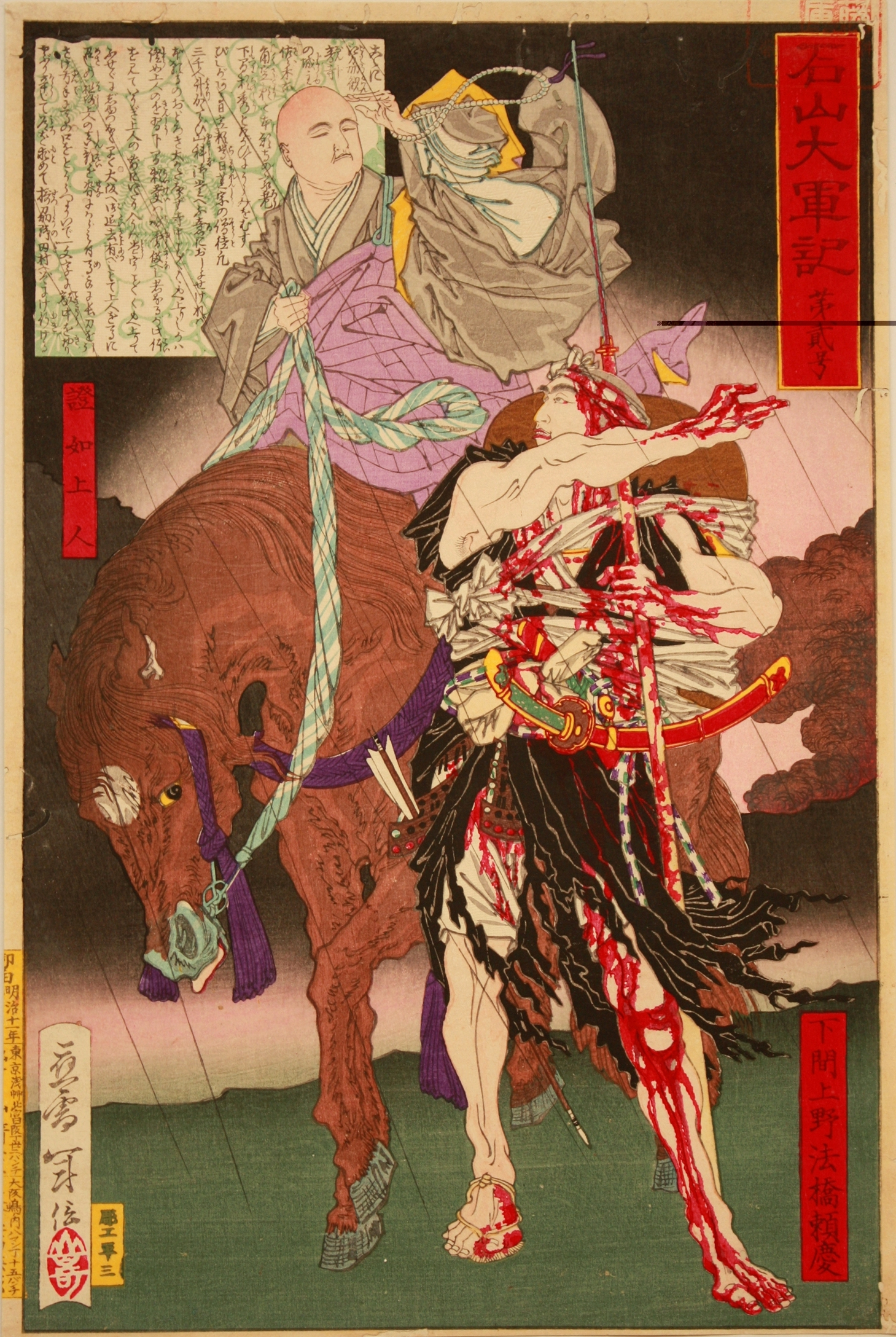 An ukiyo-e of Hongan-ji Shōnyo and Shimotsuma Raikei.